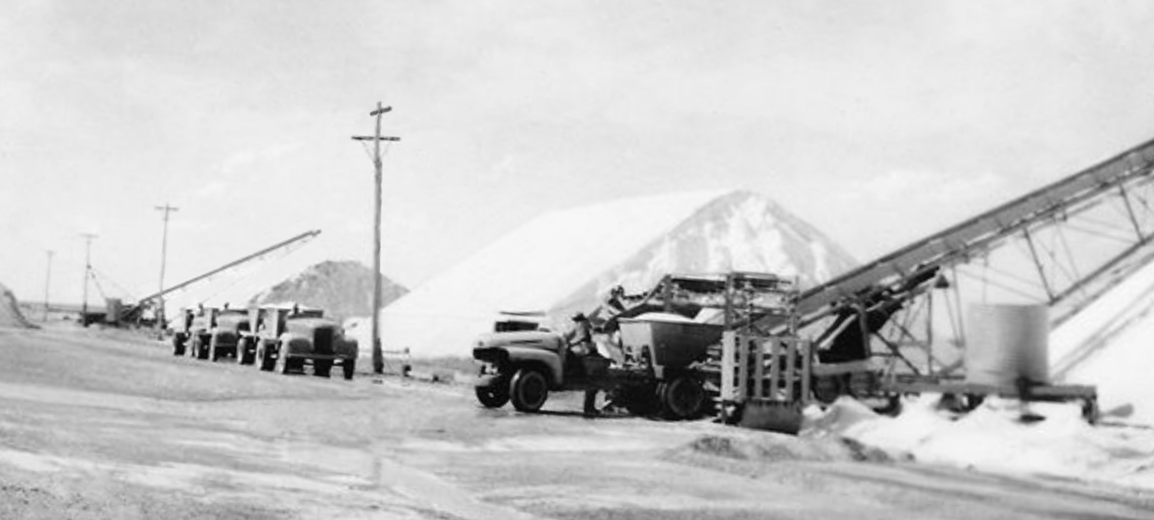 Salt harvesting at Lake Bumbunga, South Australia, in the late 1940s. Trucks wait to empty the contents of their tip-trailers on to the conveyor that carries salt to the top of the large salt heap off-camera to the right.